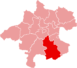 Location of Bezirk Kirchdorf an der Krems within the Land of Upper Austria